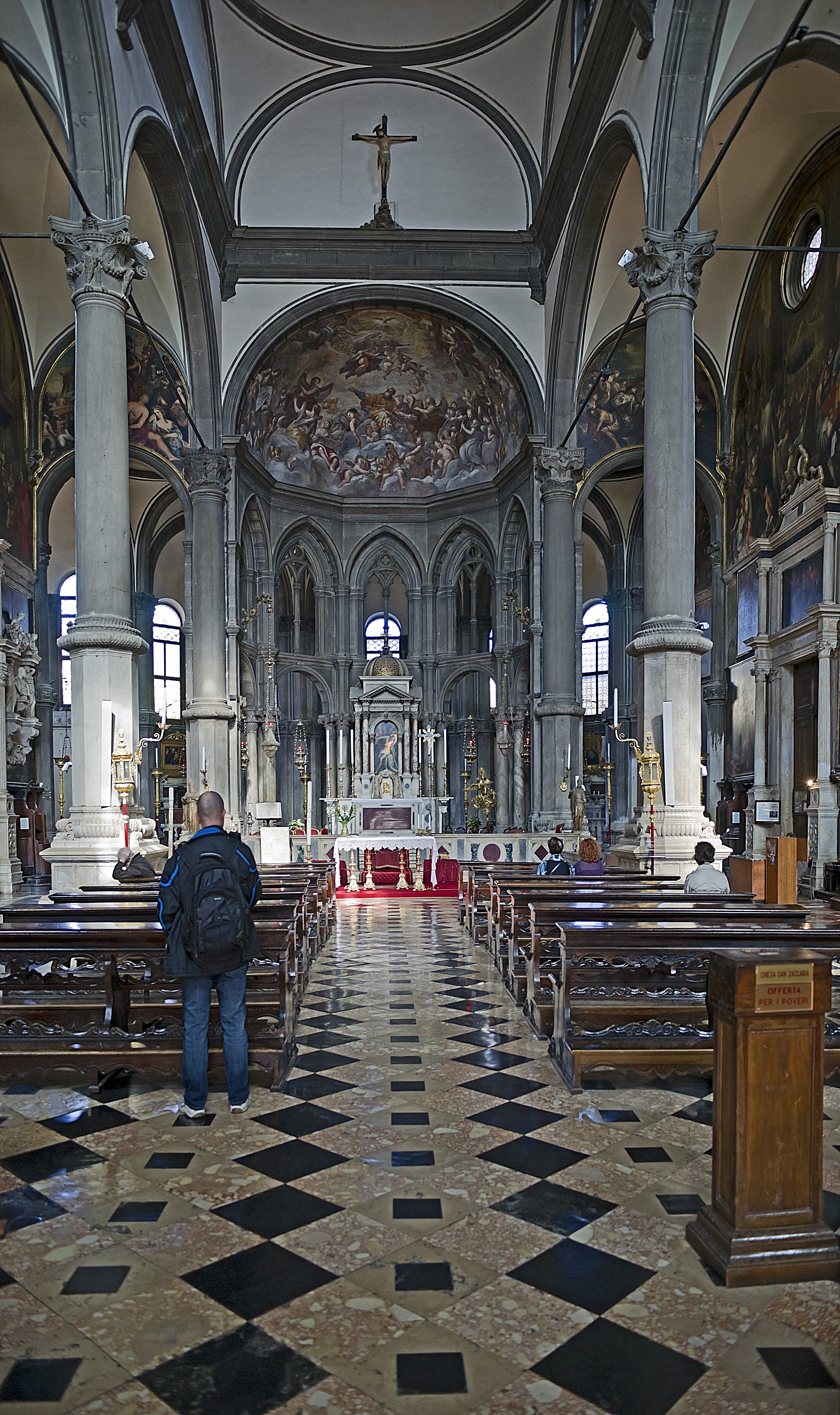 Church of San Zaccaria Venice. interior of the nave.